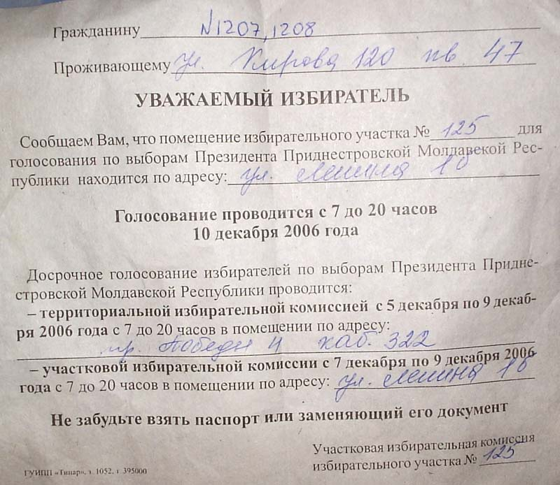 Voter invitation card for Transnistria Moldavian Republic Presidential elections, 2006.